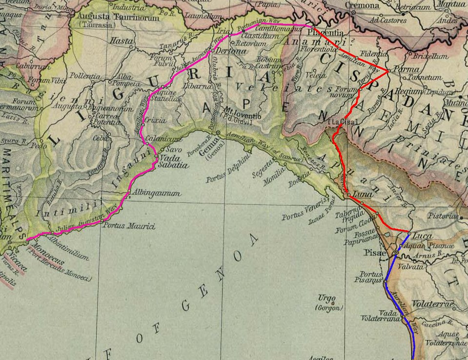 Ancient roman Julia Augusta way starting path (violet). There are depicted also Aemilia-Scauri way (red color) and Aurelia way final part (blue) leading to Rome